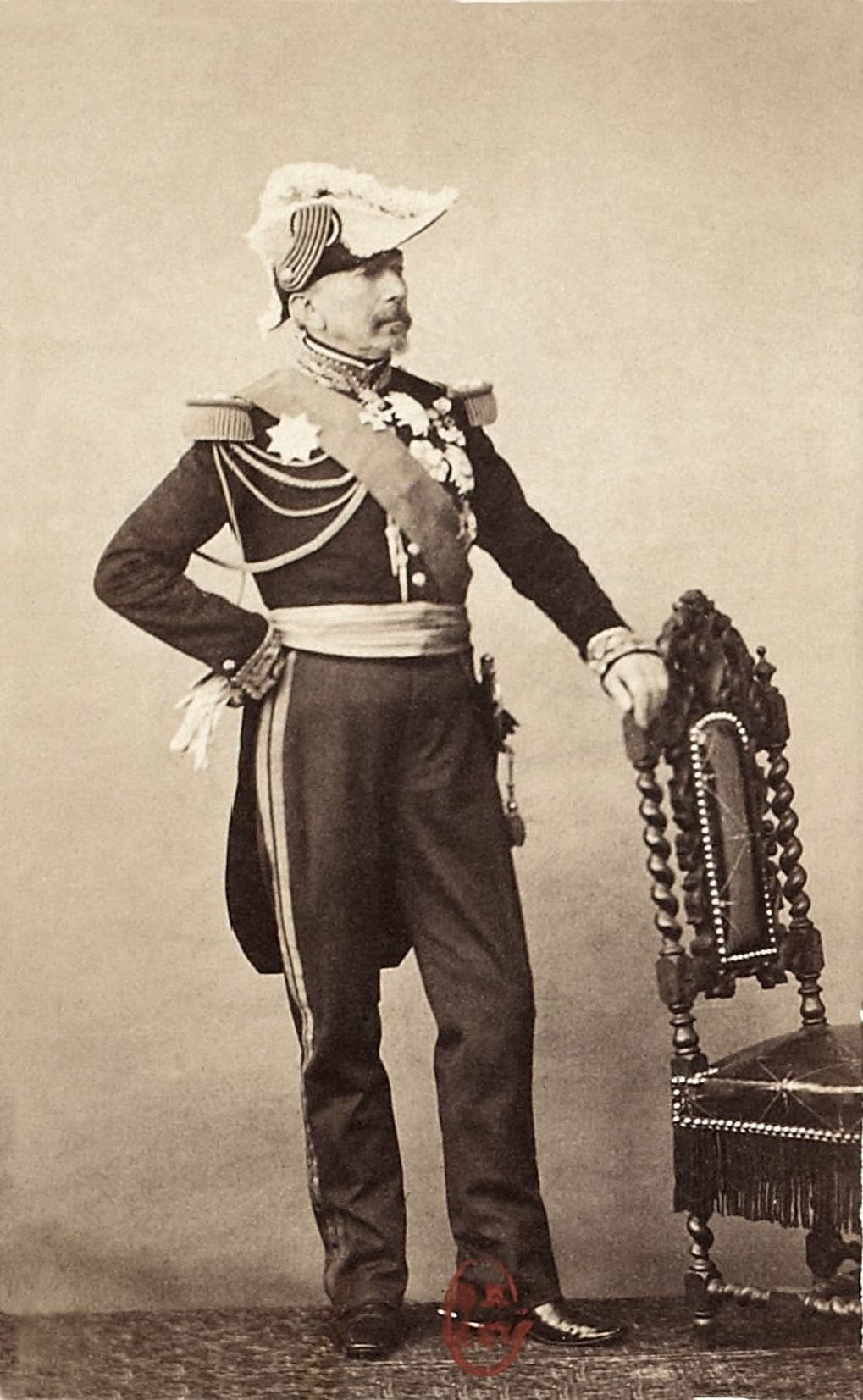 Charles-Marie-Augustin de Goyon (1803-1870), french general.